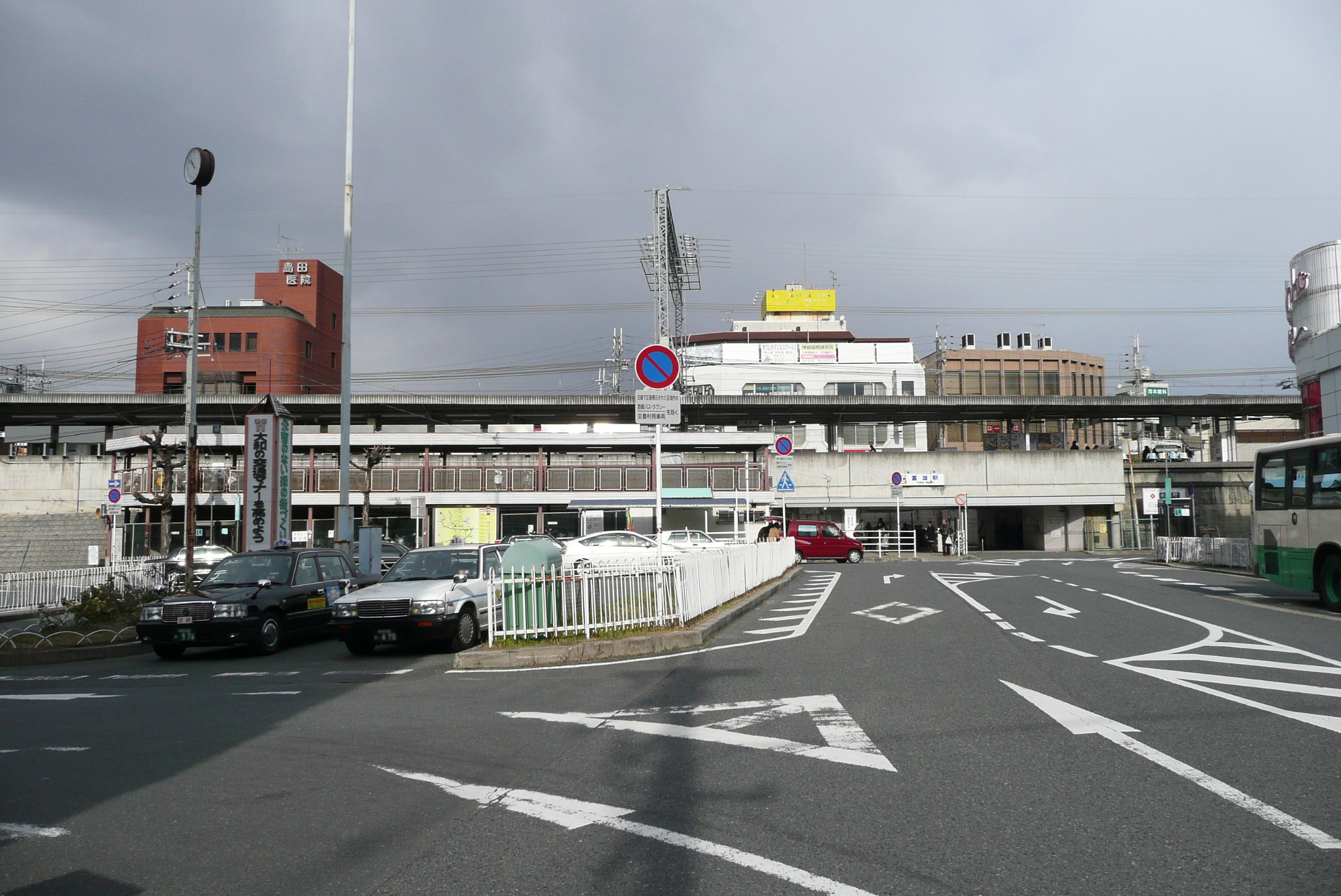 Kinki Nippon Railway,Nara Line,Tomio Station east entrance. / 近鉄奈良線富雄駅東口